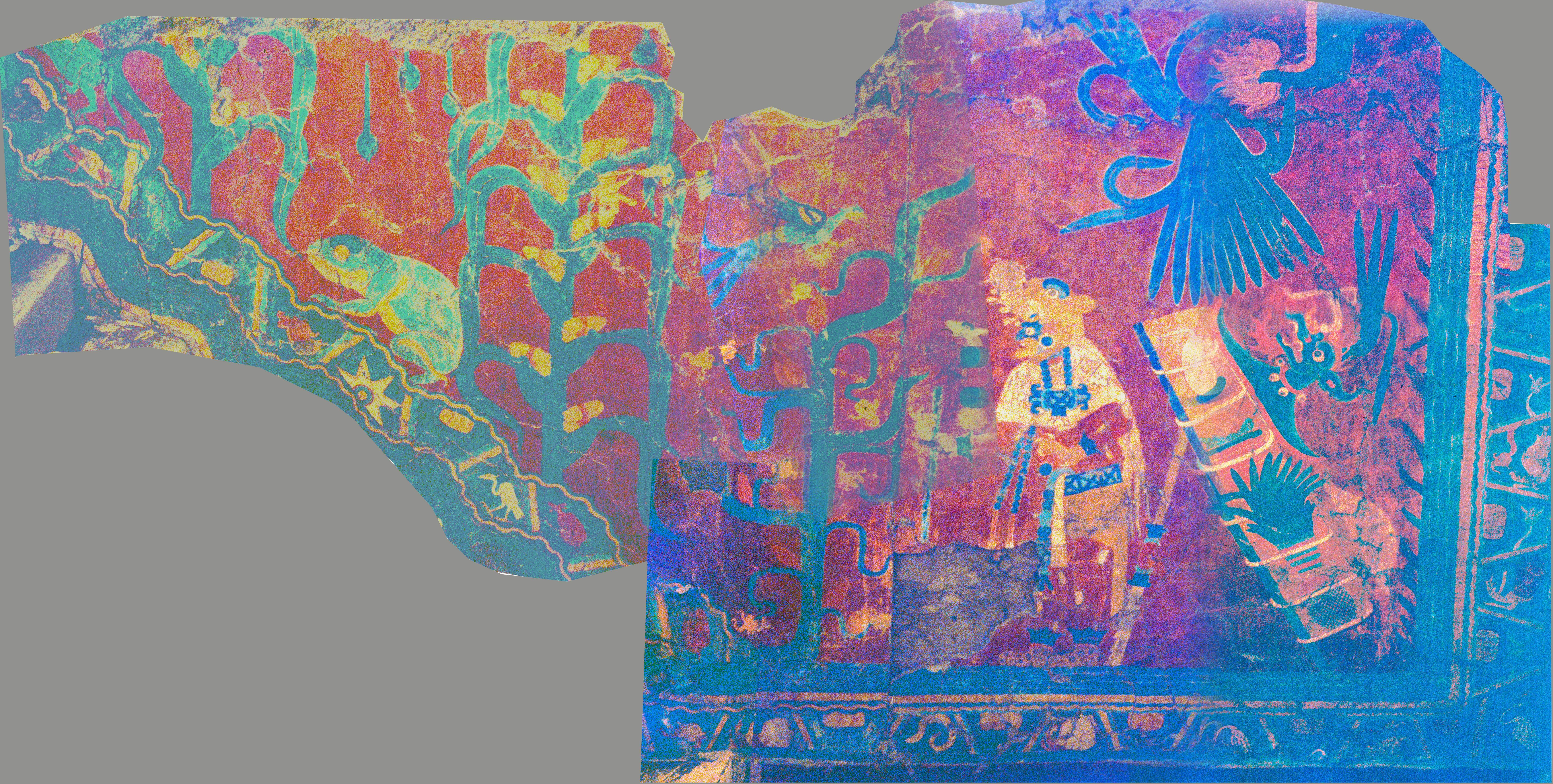 Cacaxtla, Tlaxcala, Mexico: mural of Red Temple (photo mosaic)